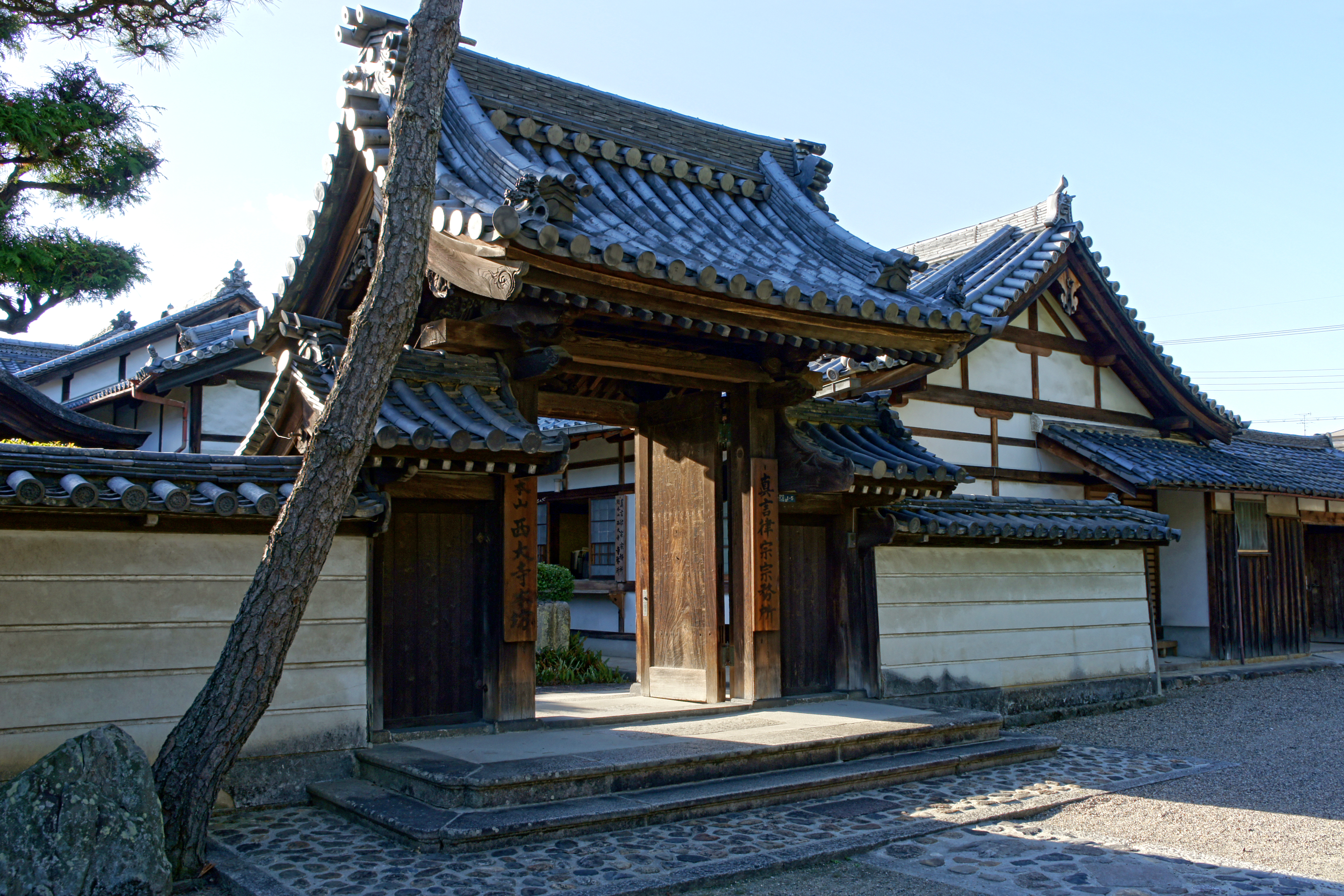 Saidai-ji in Nara, Nara prefecture, Japan.